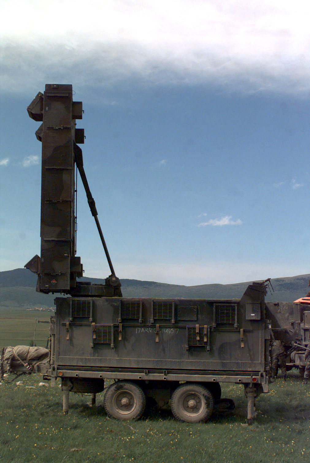 An AN/TPQ-37 Firefinder Radar stands ready near Glamoc, Bosnia-Herzegovina (XJ 641 886) during Operation Joint Endeavor.